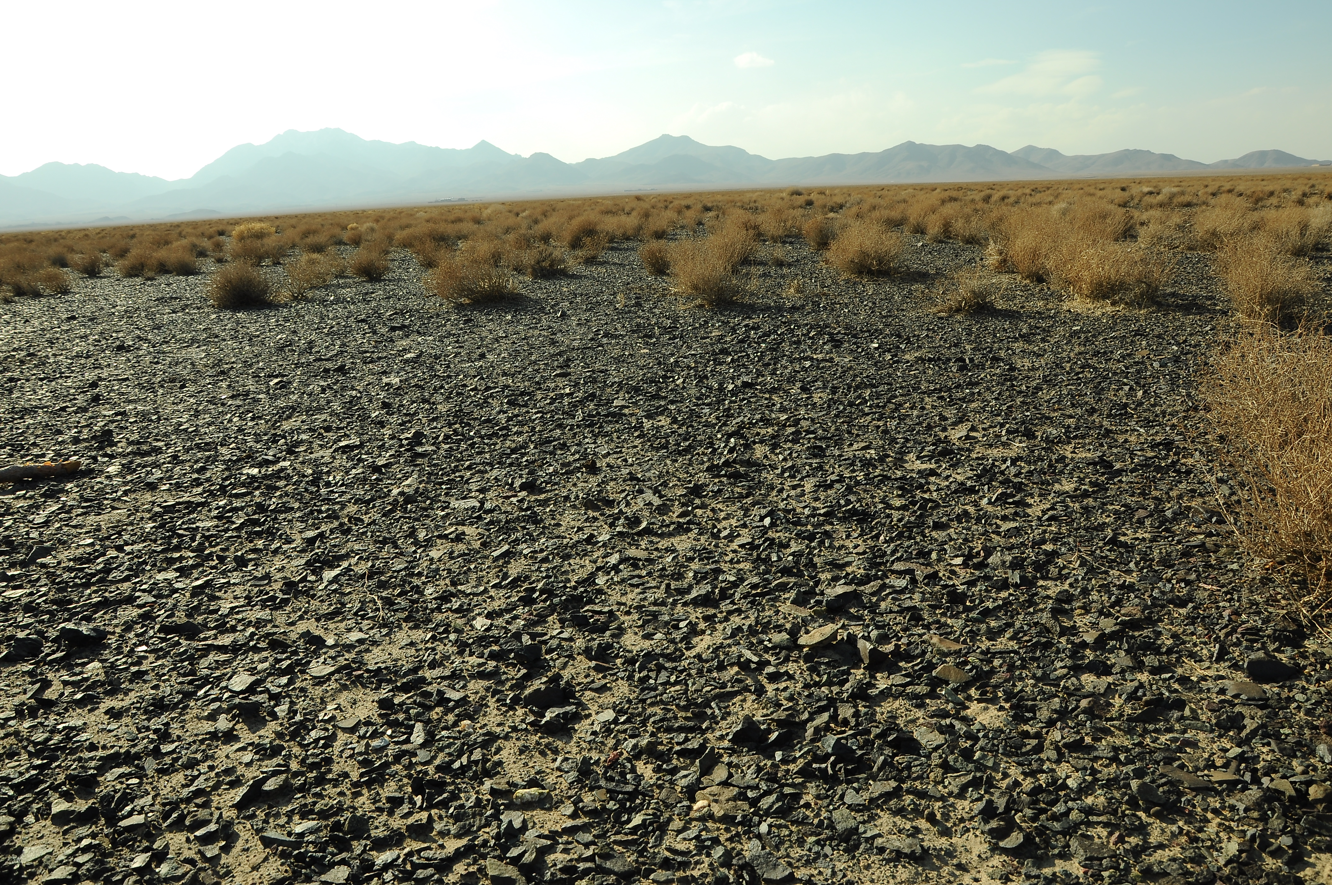 desert pavement in central Iran; naein